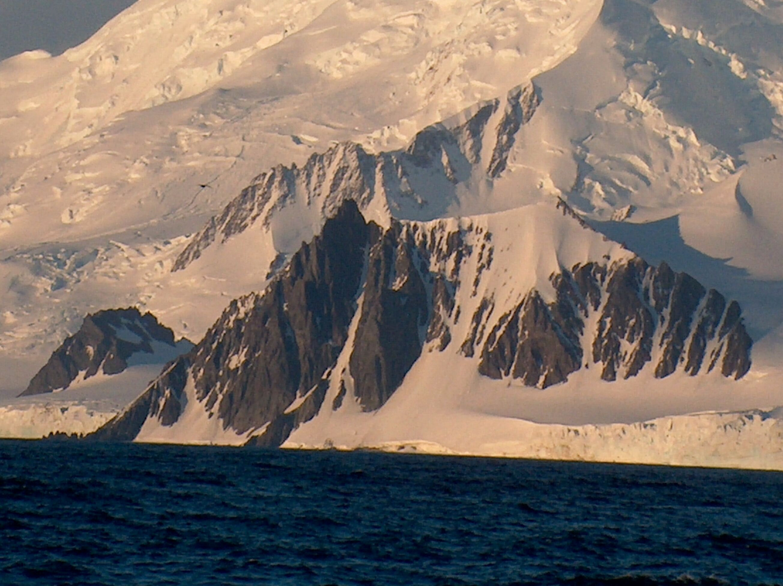 Author: Lyubomir Ivanov Source: the author